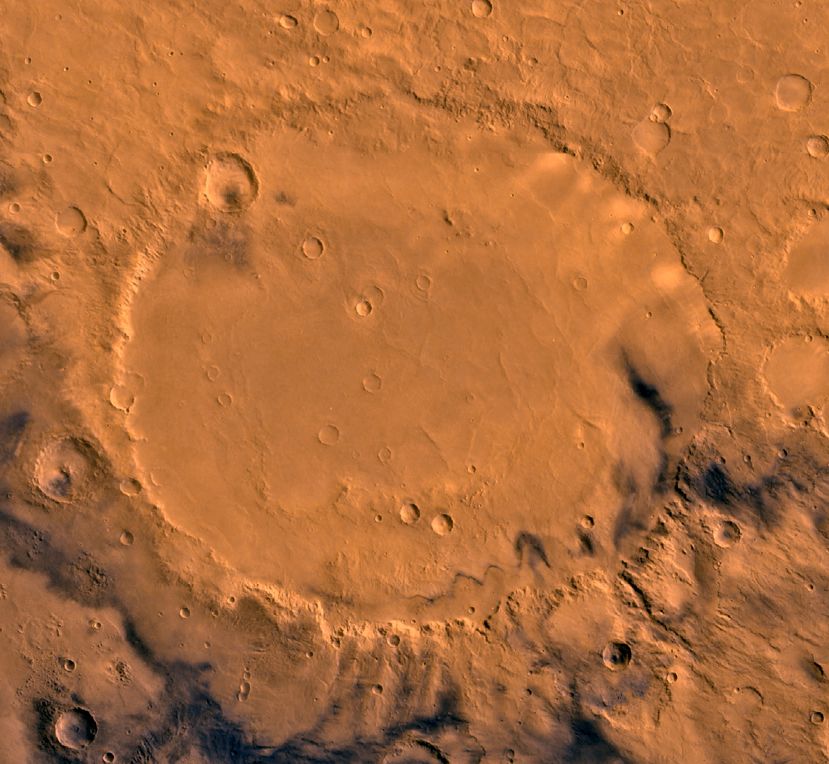 Handmade mosaic of PIA00180 and PIA00172, focusing on the Schiaparelli crater.